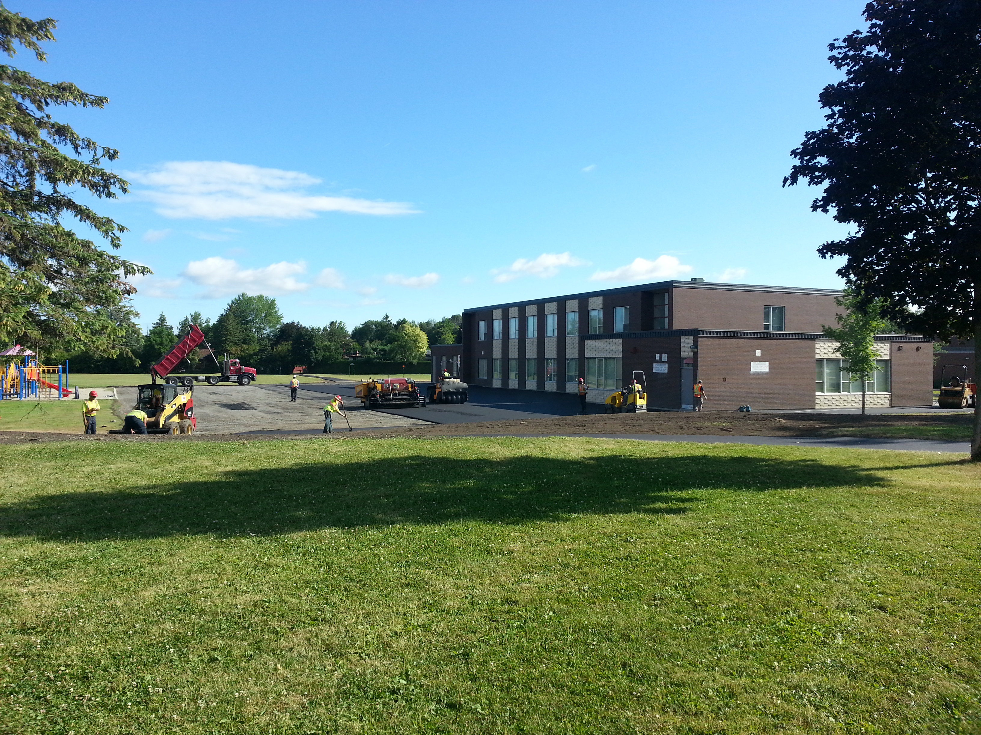 Repaving the schoolyard of General Vanier Public School by Canada Paving & Construction Inc in Ottawa, Ontario